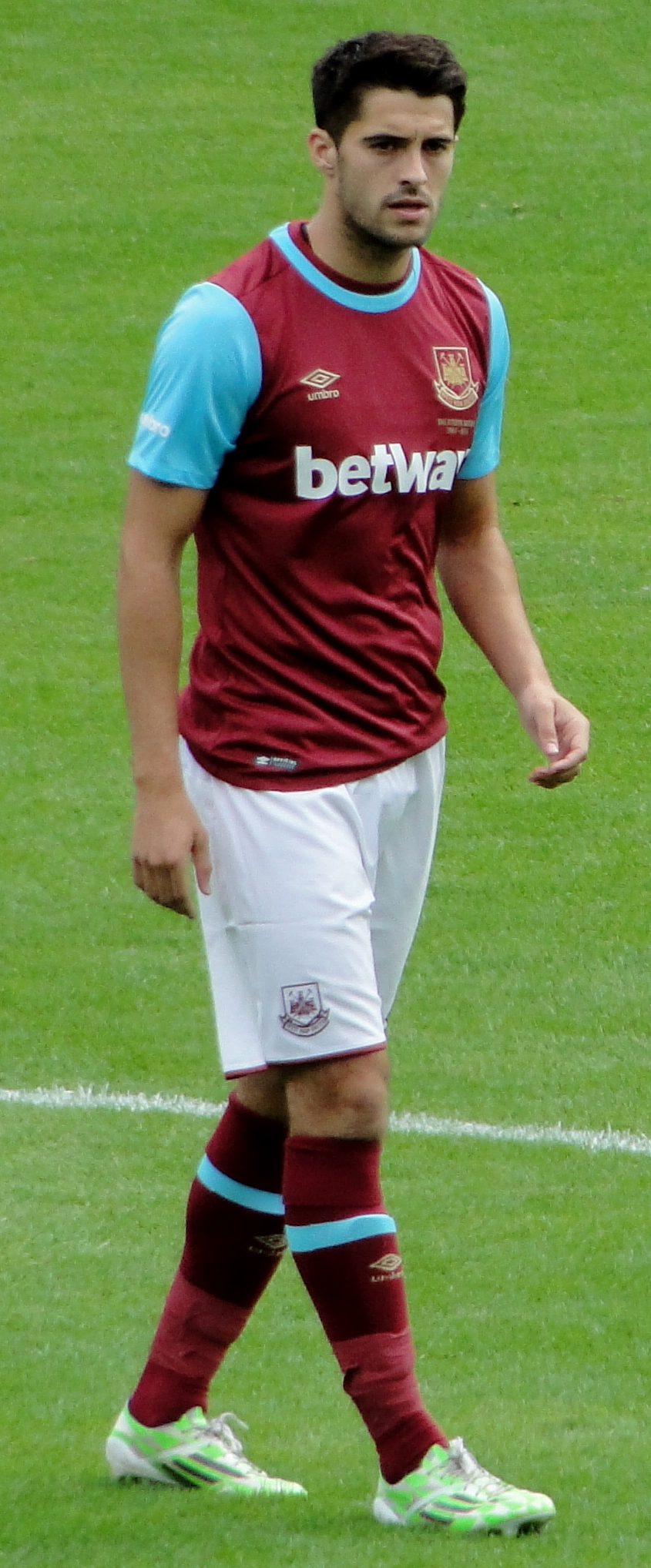 West Ham United player, Stephen Hendrie playing in their friendly match against Peterborough United at London Road, Peterborough